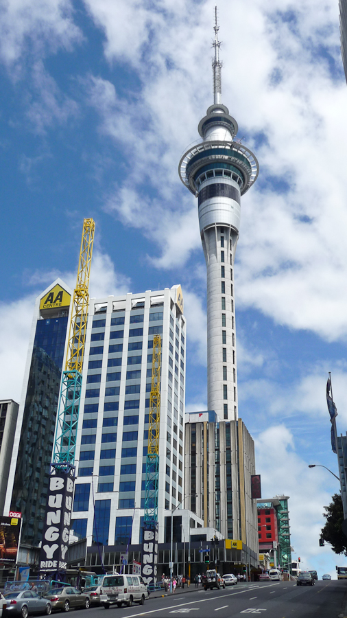 Auckland CBD, with Skytower